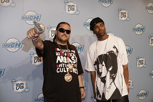 Belly and Ginuwine were attendees at the 2007 MuchMusic Video Awards, held the night of Sunday, June 17, 2007 in Toronto, Ontario, Canada.